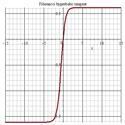 Fibonacci hyperbolic tangent